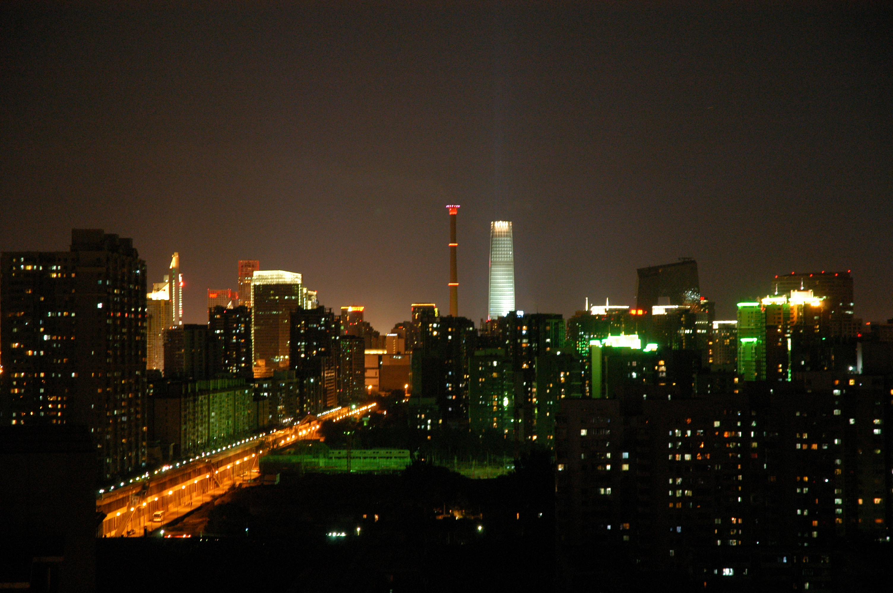 Beijing central business district skyline at night.